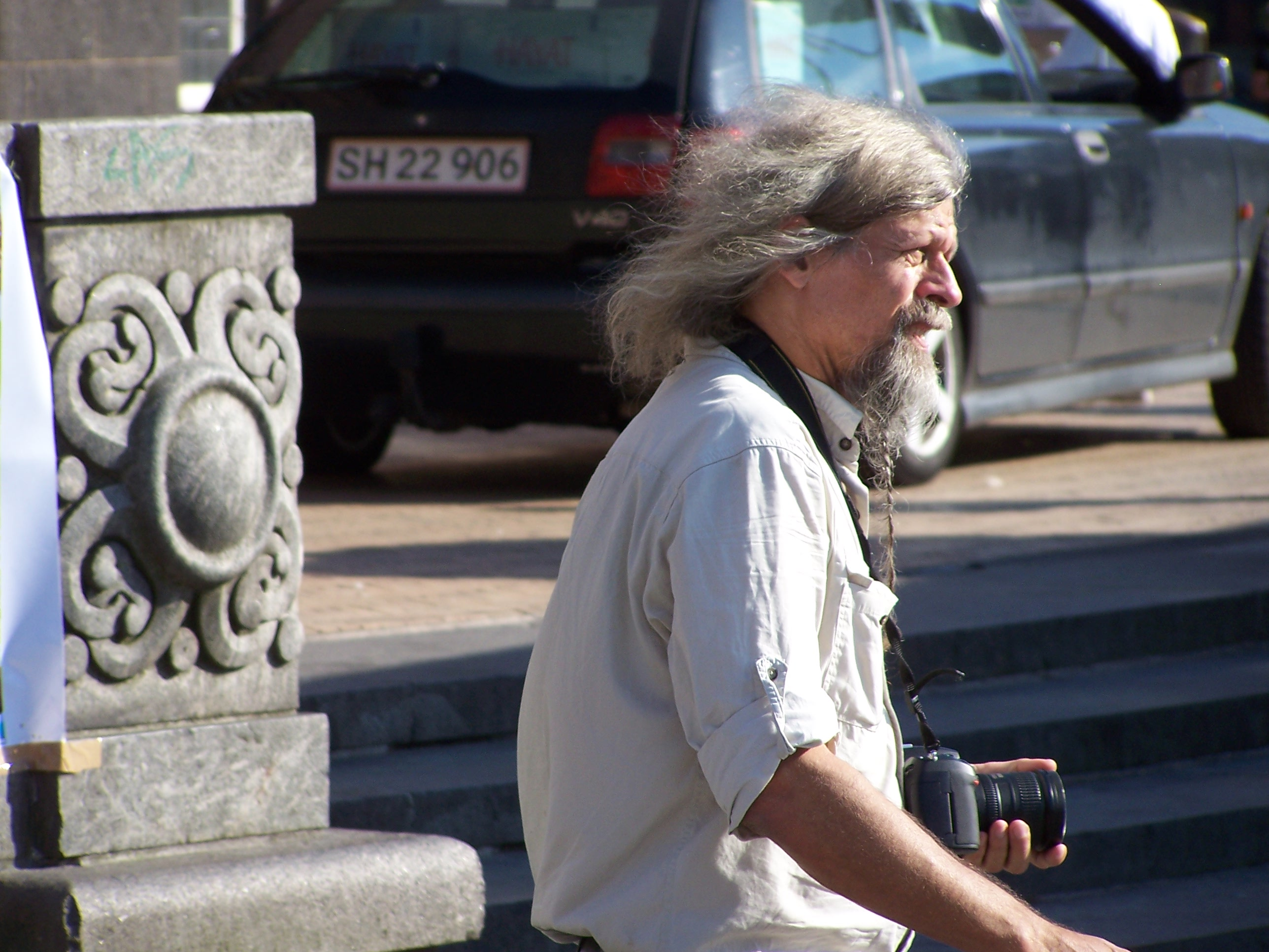 Jacob Holdt, City Hall, Copenhagen